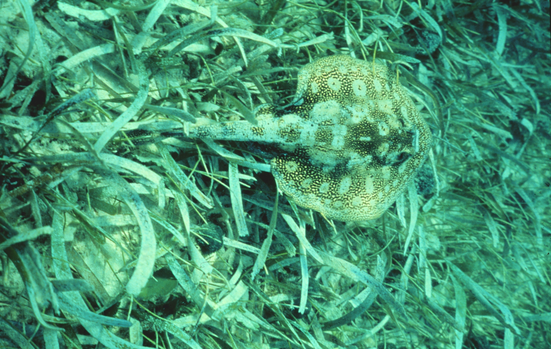 Yellow stingray (Urobatis jamaicensis) among seagrass in Florida Keys National Marine Sanctuary.